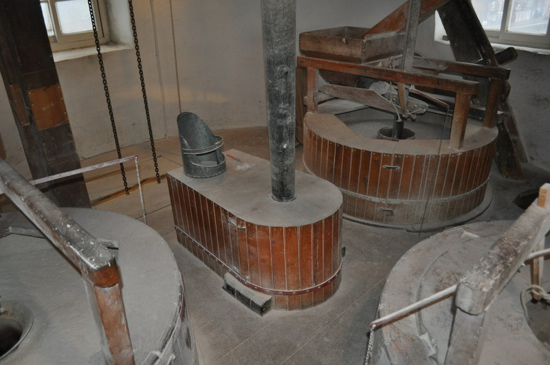 Maud Foster Mill - Three Stones, near to Boston, Lincolnshire, Great Britain. The mill powers three stones with its five powerful sails. Two are millstone grit (Derbyshire) and one Fench burr (for white flour). Two were in action today. The central shaft runs down to the floor below and runs the governor.